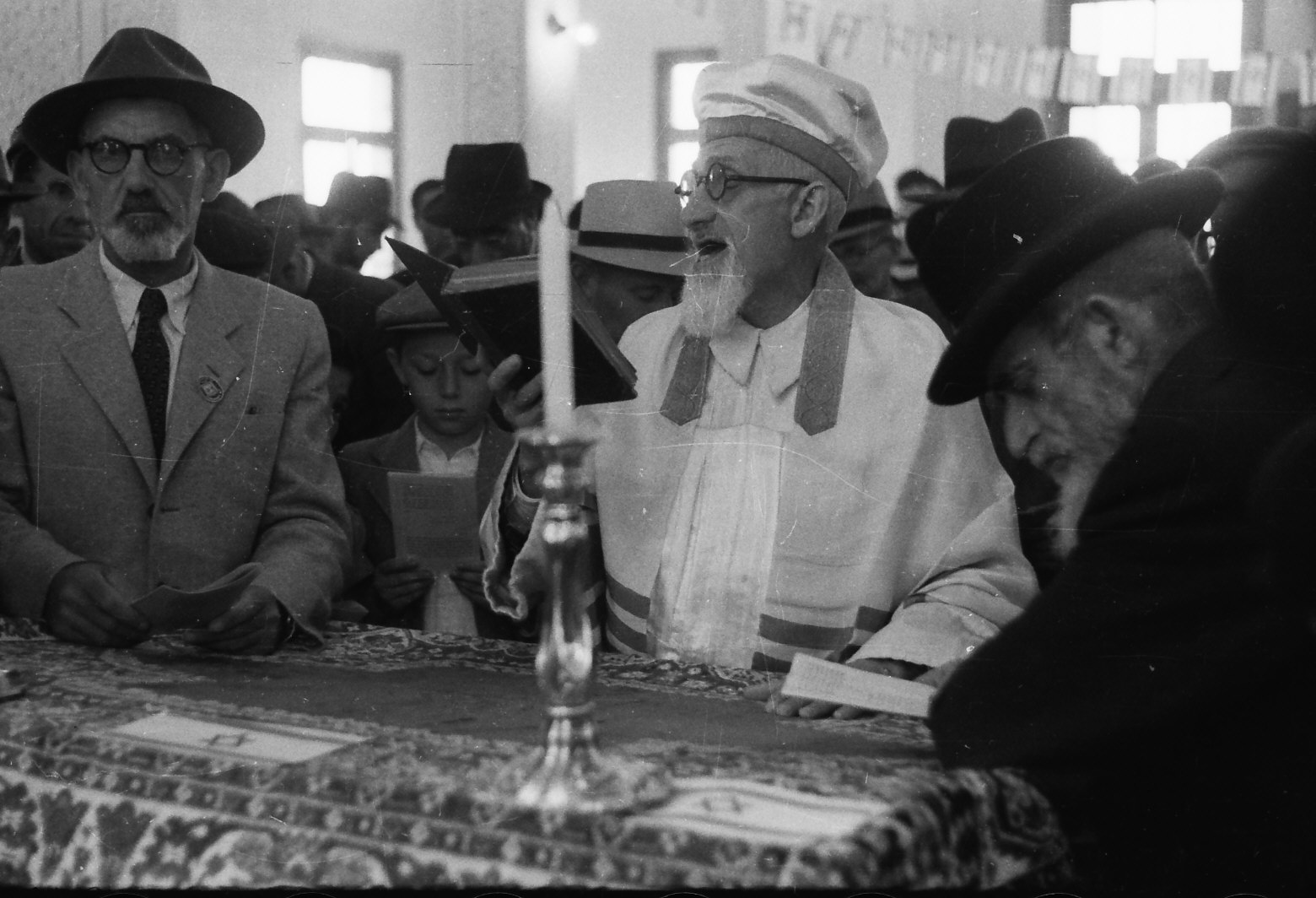 Religion in Israel.